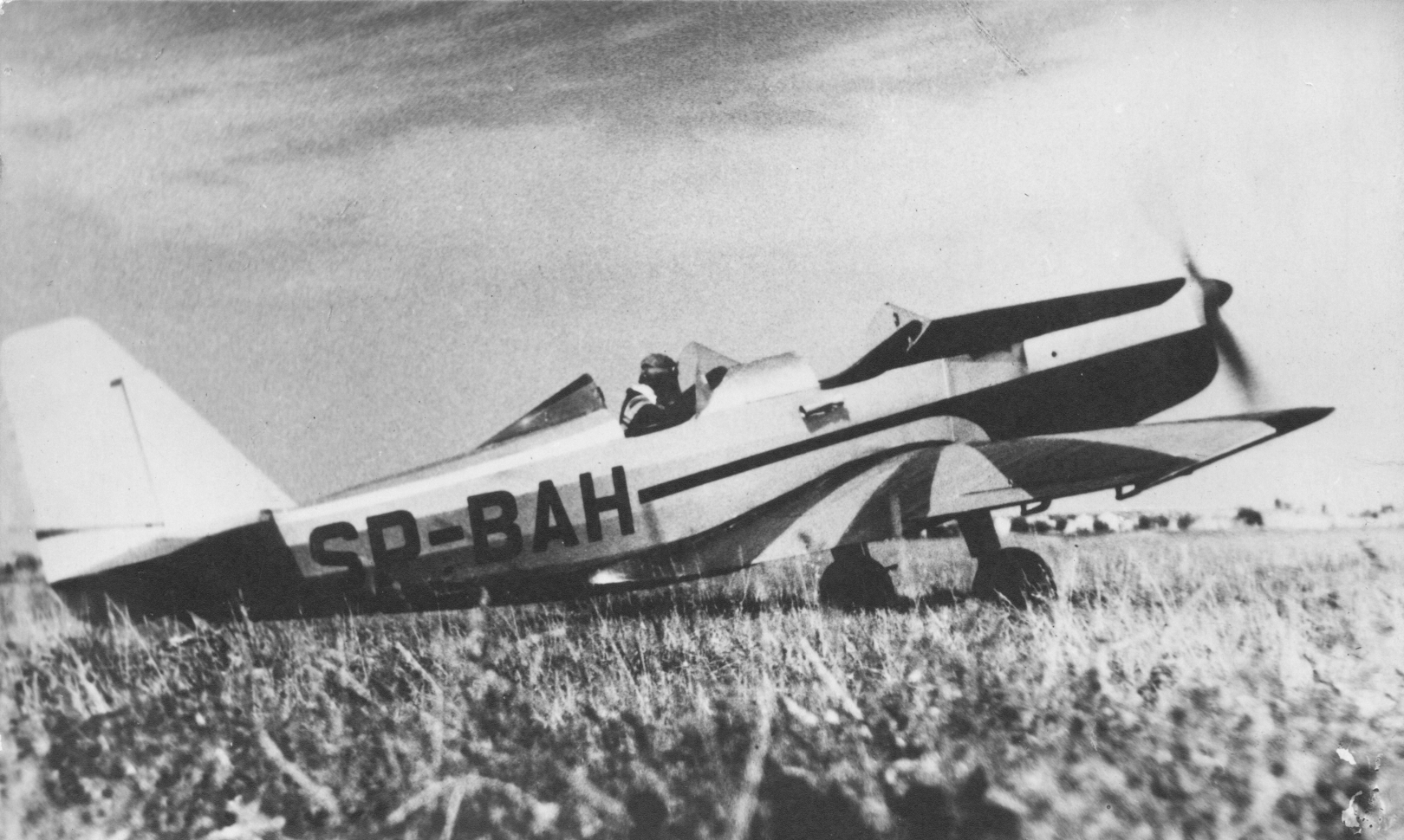 Prototype of Polish CSS-11 (SP-BAH), built by Centralné Studium Samolotów, aerobatic aircraft, test-flown by Jerzy Szymankiewicz on 16th of October 1948.